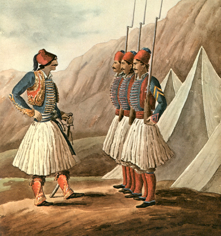 Members of the Greek regular army at parade at Nafplion, 1830